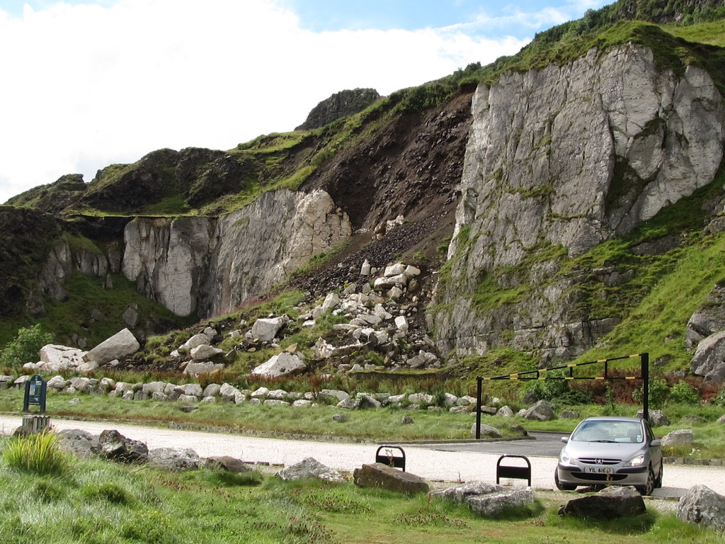 Mudflow above the Coast Road south of Glenarm